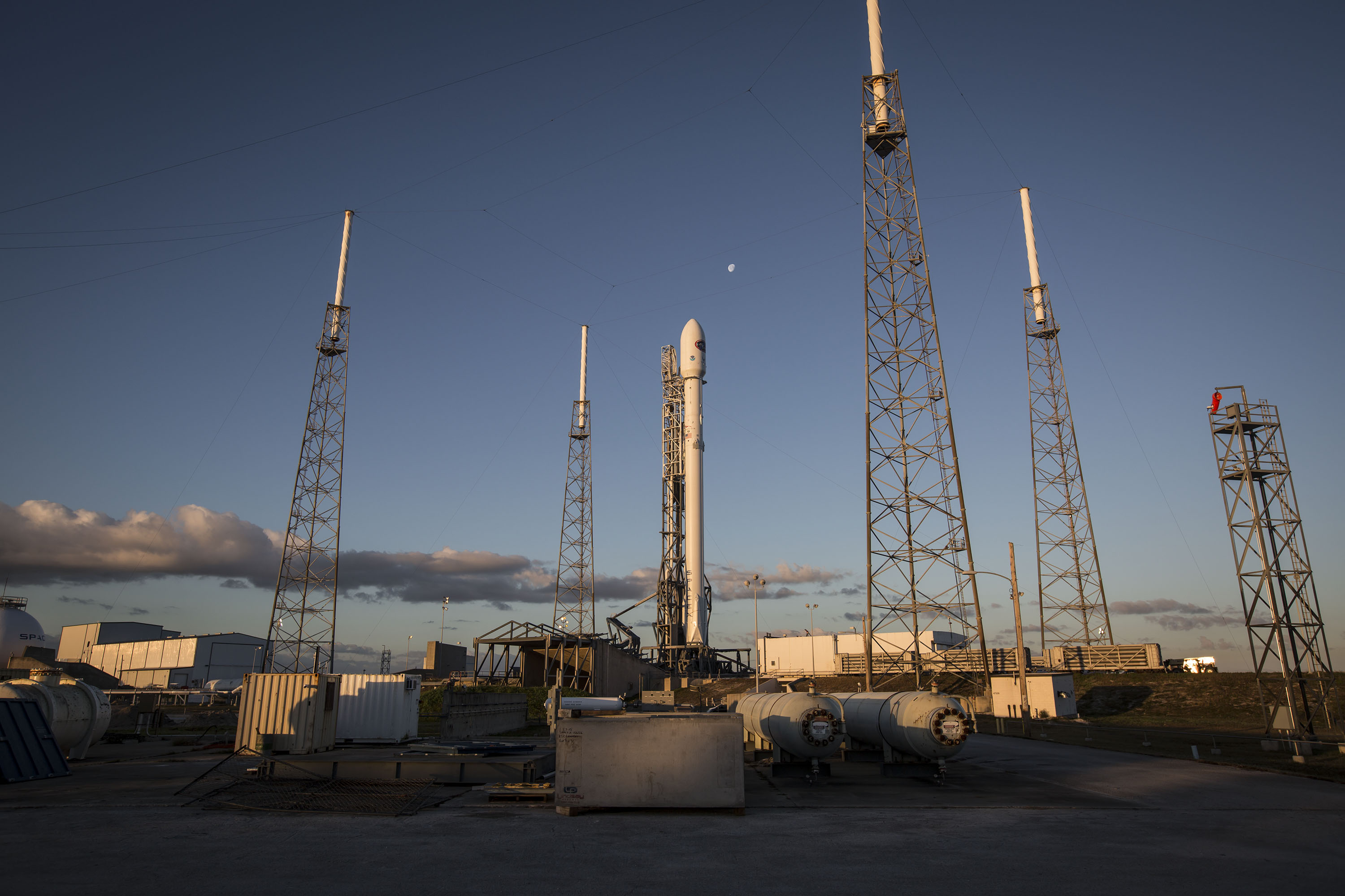 Just before sunset at 6:03pm ET on Wednesday, Feb. 11th, Falcon 9 lifted off from SpaceX’s Launch Complex 40 at Cape Canaveral Air Force Station, Fla. carrying the Deep Space Climate Observatory (DSCOVR) satellite on SpaceX’s first deep space mission.